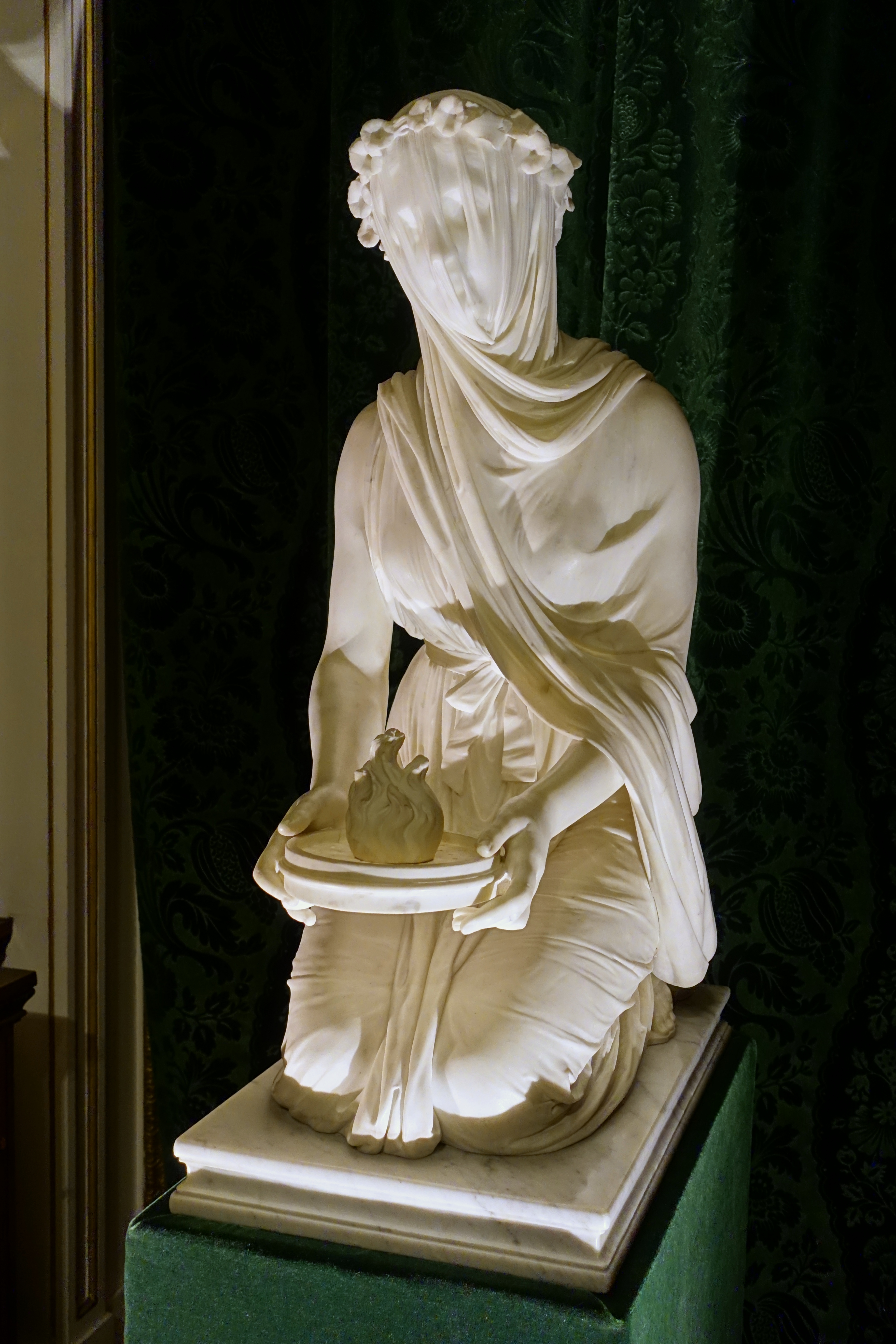 Veiled Vestal by Raffaelle Monti, 1847, marble - Chatsworth House - Derbyshire, England.